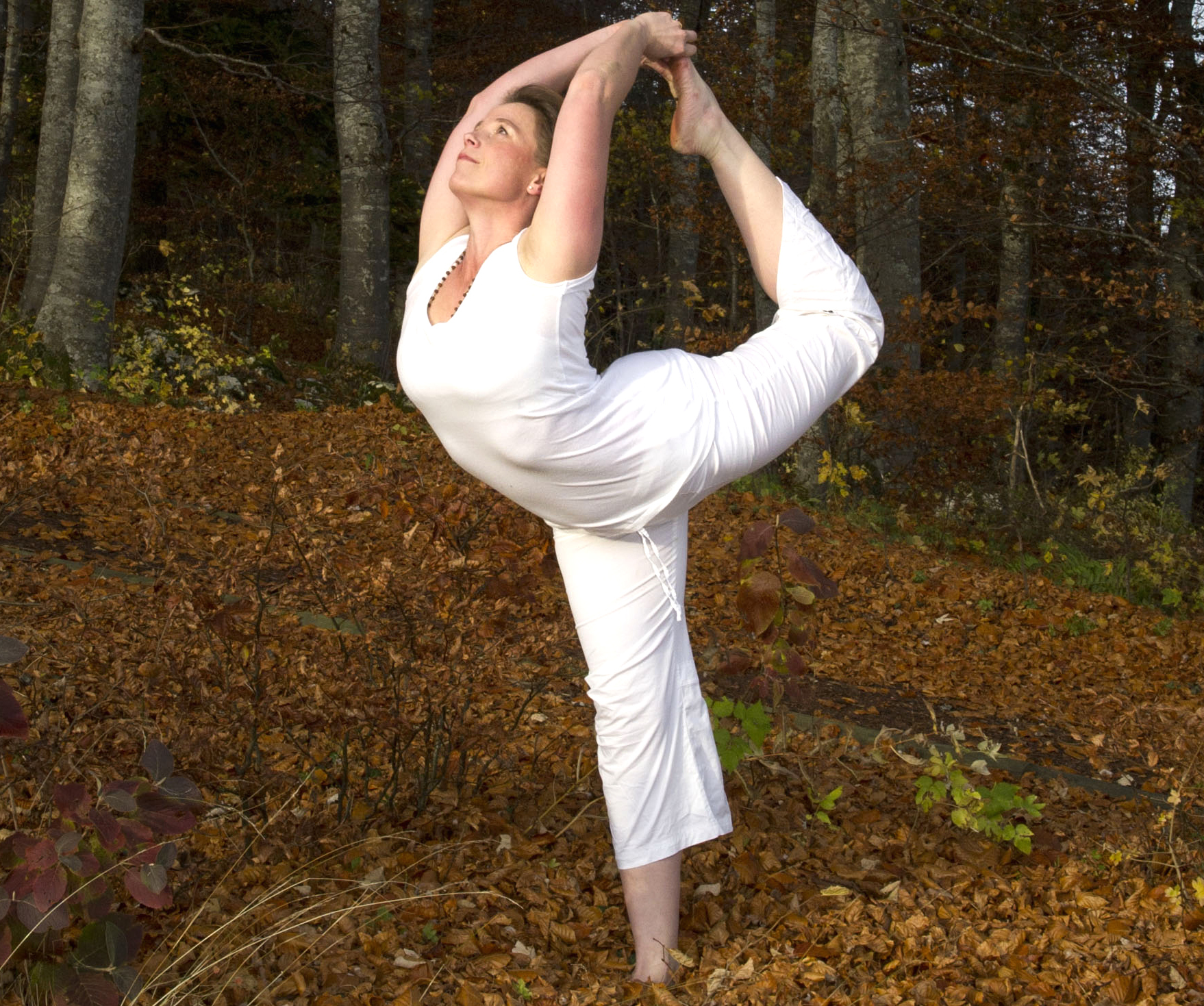 Yoga Dancer Posture Natarajasana